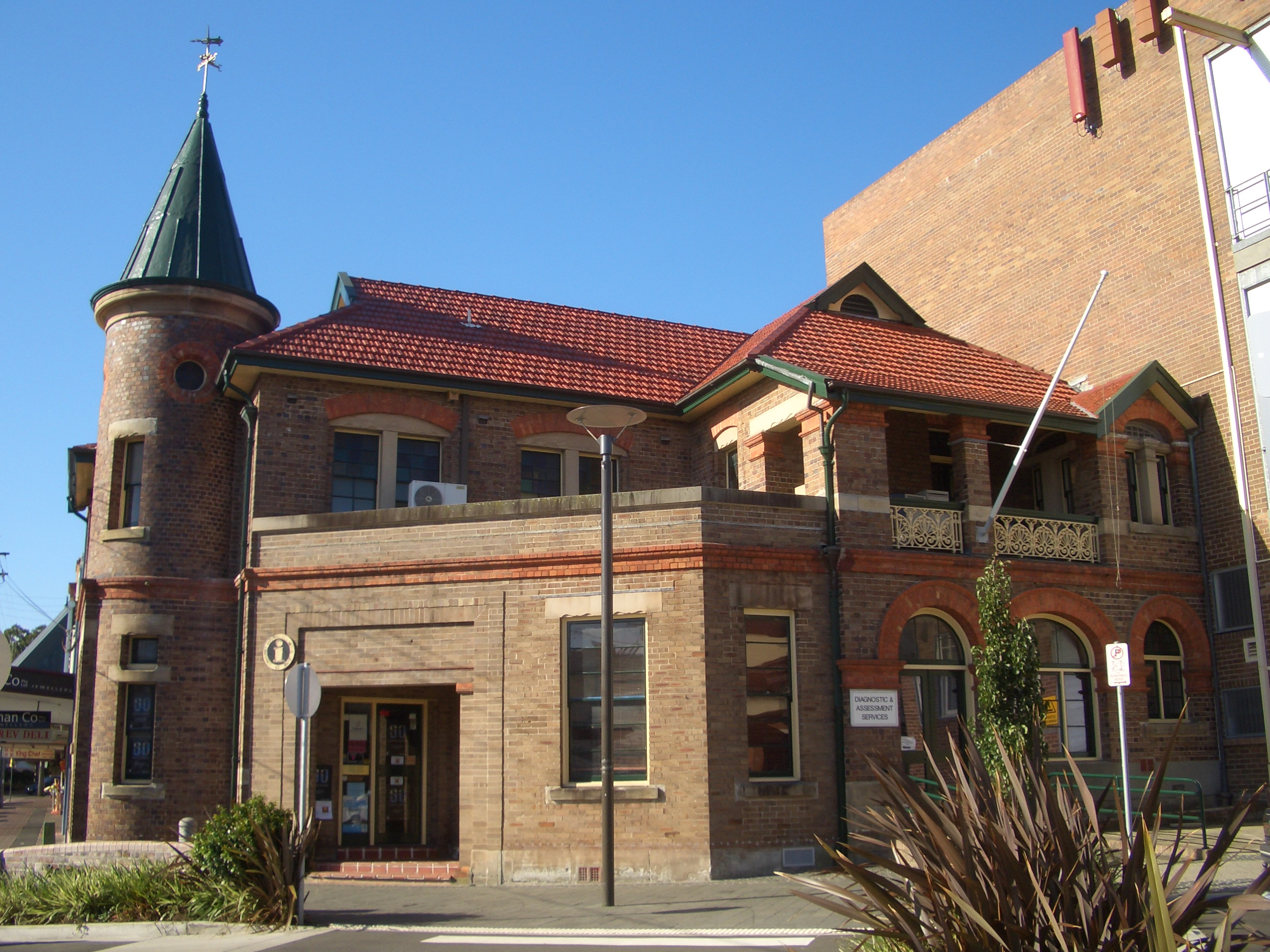 Kogarah Community Centre, former Post Office